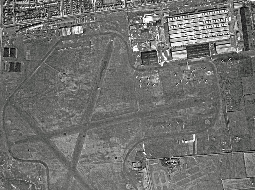 Blackpool (Squires Gate) Airport vertical photo taken in 1945